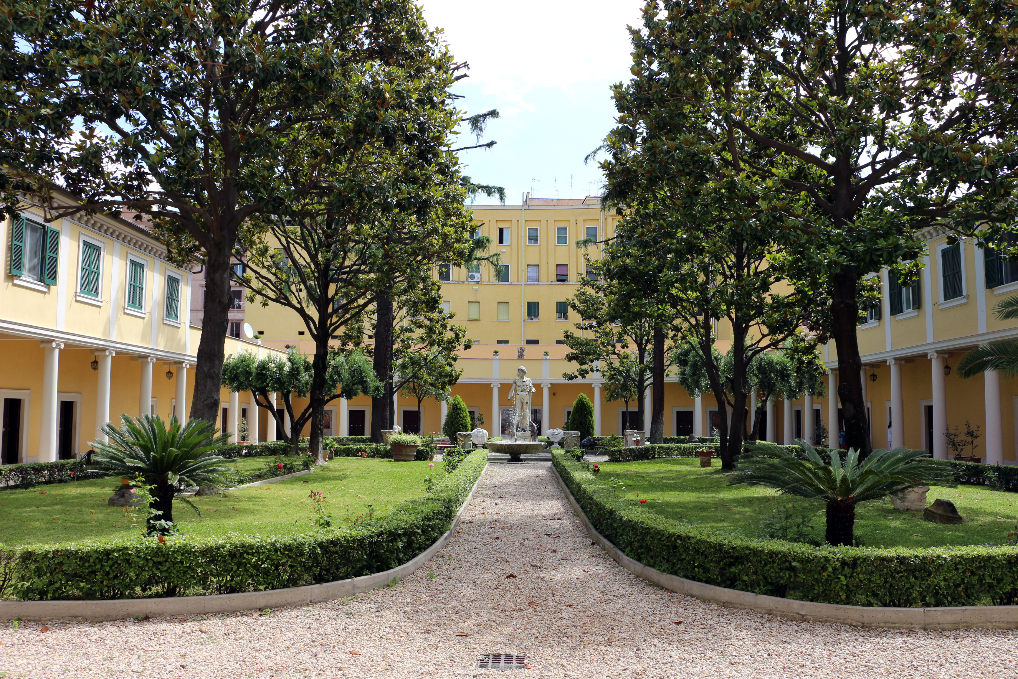 Casino Giustiniani Massimo (Rome)